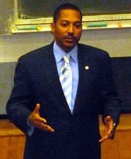 Ohio Treasurer Kevin Boyce